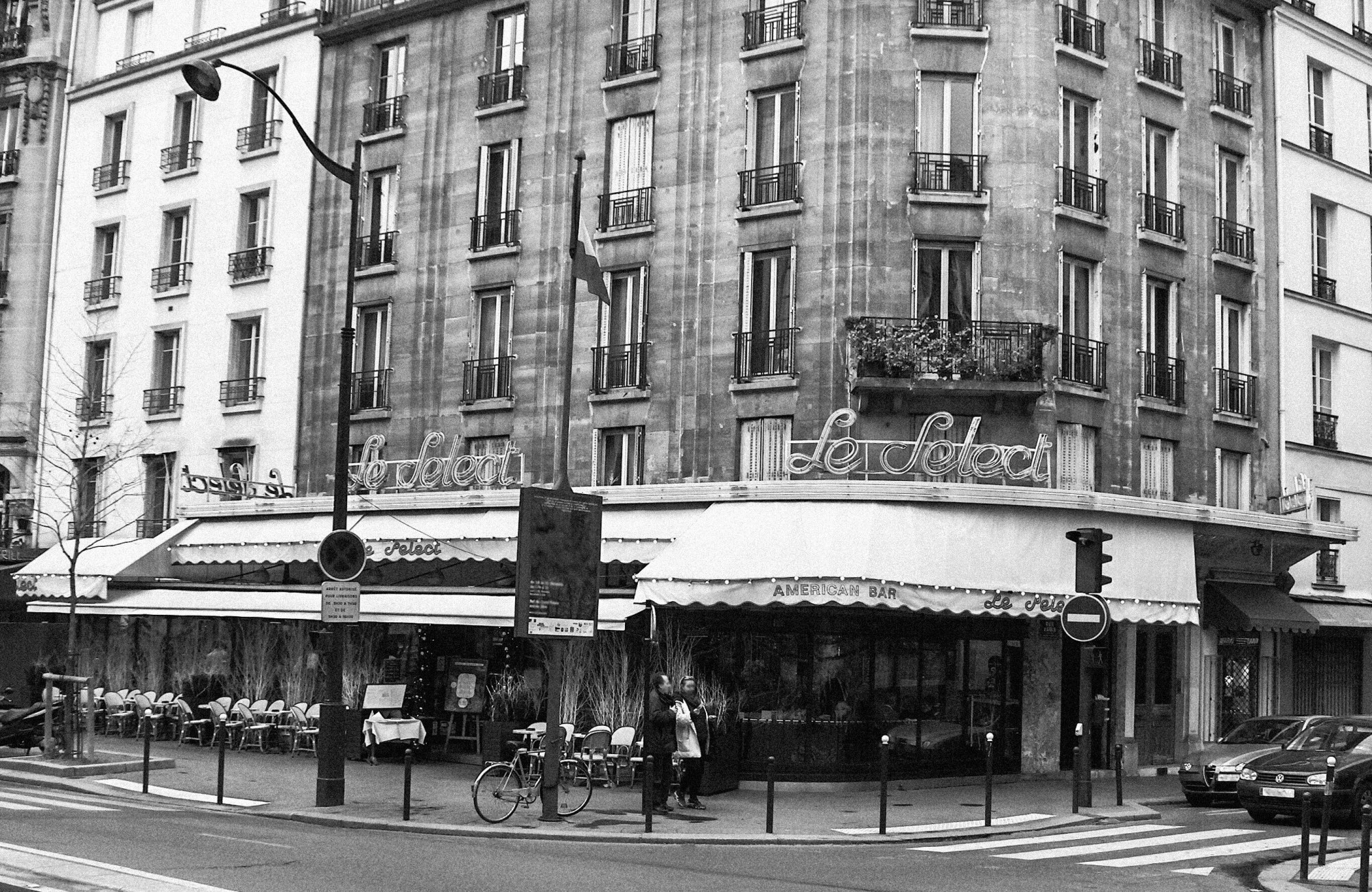 Le Select (brasserie) — 99, boulevard du Montparnasse, Paris (6th district), France